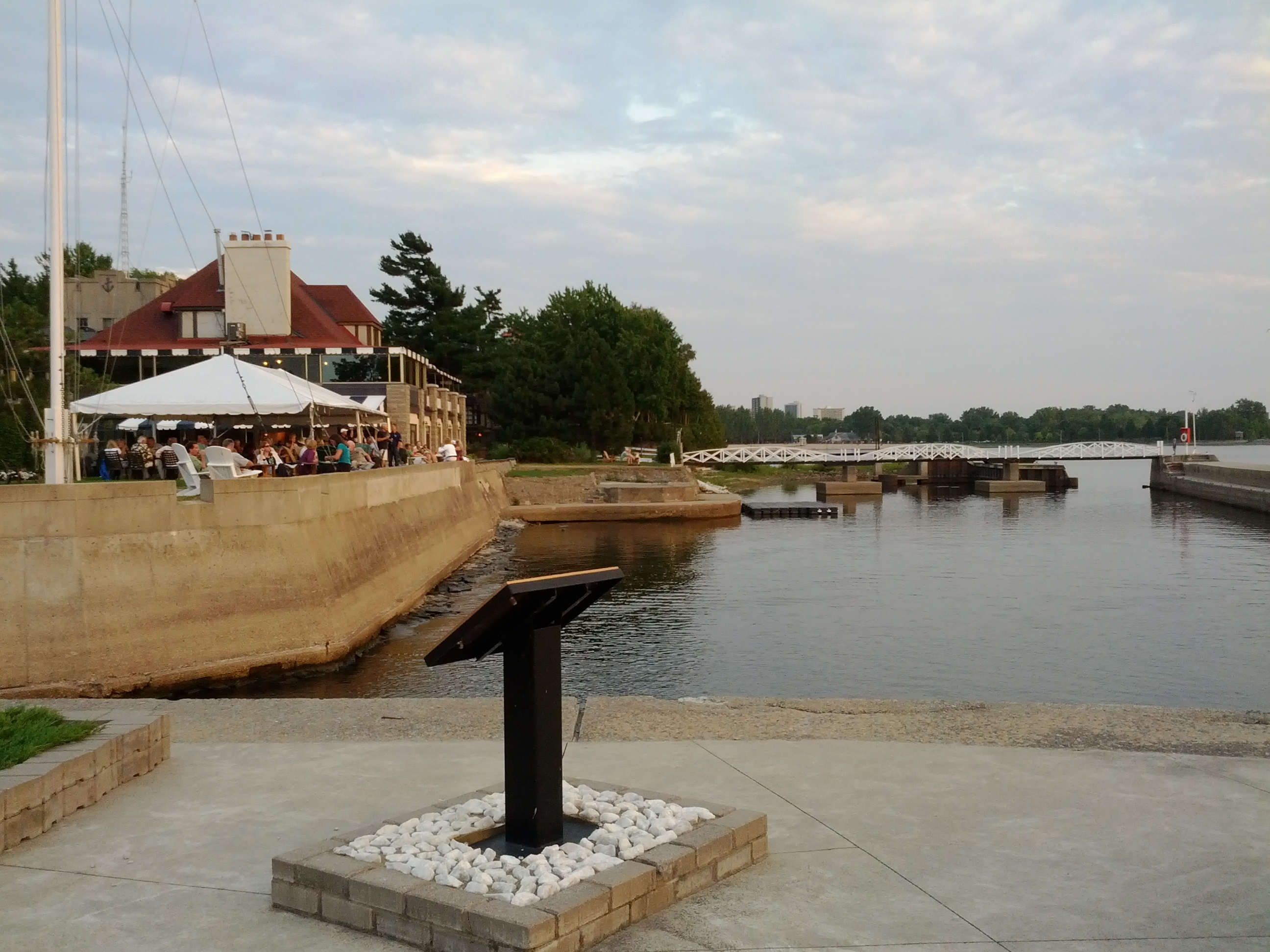 Sherwood Point plaque view of Britannia Yacht Club Harbour, clubhouse, bridge, pier